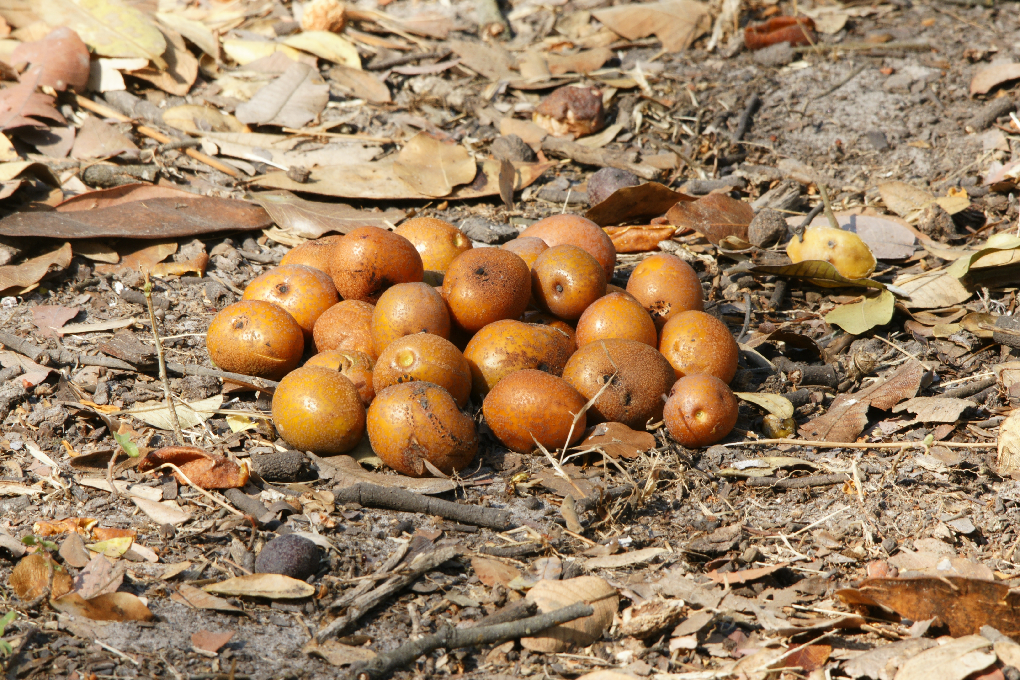 Fruits of the Mupundu tree close to the Kafue River near Kitwe, Zambia.